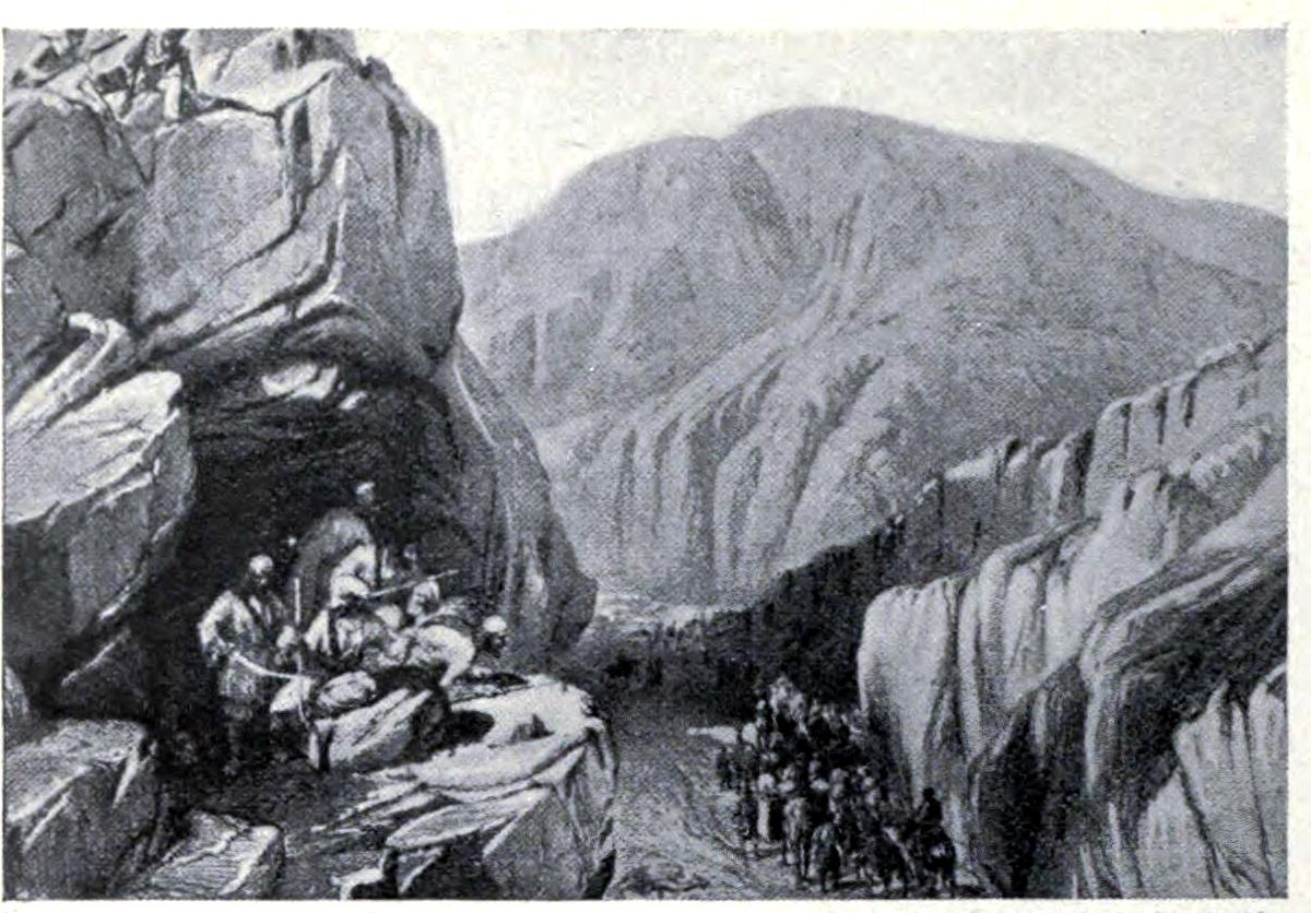 Sir - I -Khajur in the Bolan Pass, 1839. From Hutchinson's story of the nations, containing the Egyptians, the Chinese, India, the Babylonian nation, the Hittites, the Assyrians, the Phoenicians and the Carthaginians, the Phrygians, the Lydians, and other nations of Asia Minor.